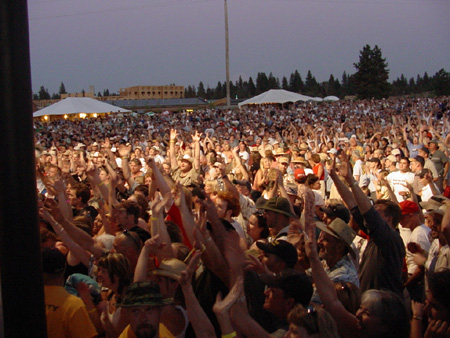 Concert in the Les Schwab Amphitheater